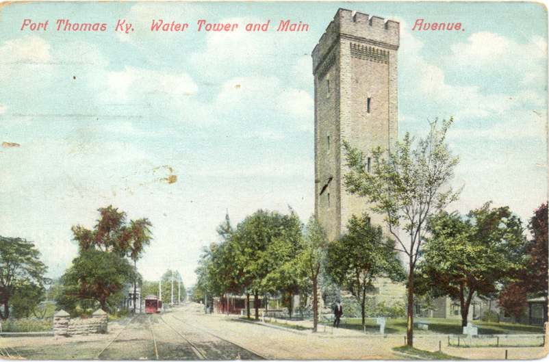 Source: Nky Views Postcard, dated 1909, prior to 1923 SonPraises 03:13, 21 March 2007 (UTC)